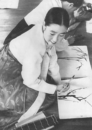 Kisaeng training